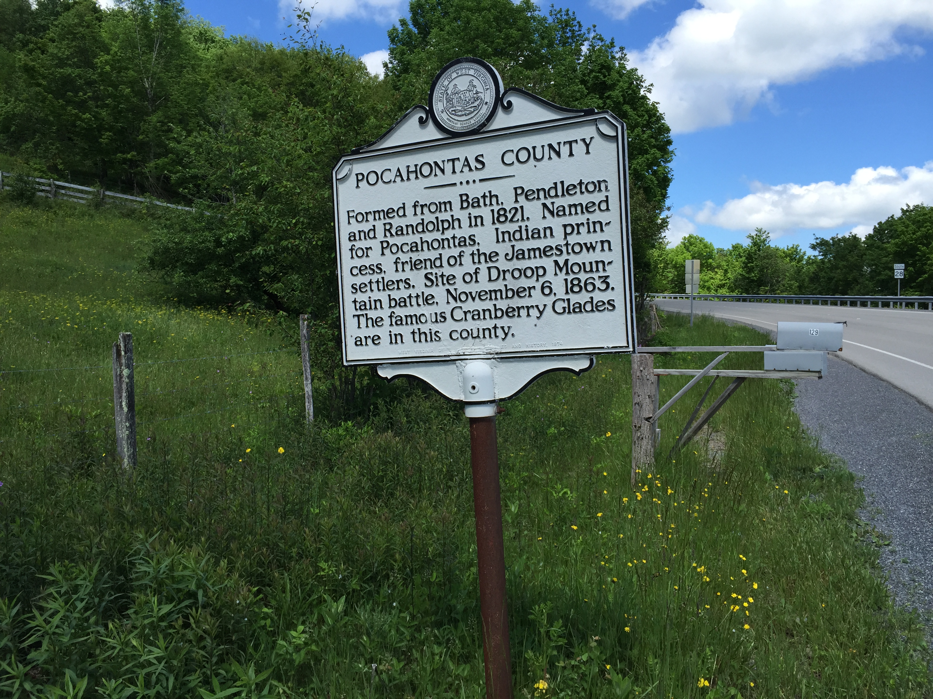 Pocahontas County historical marker along West Virginia State Route 28 (Mount Freedom Drive) at the boundary of Pocahontas County, West Virginia and Pendleton County, West Virginia